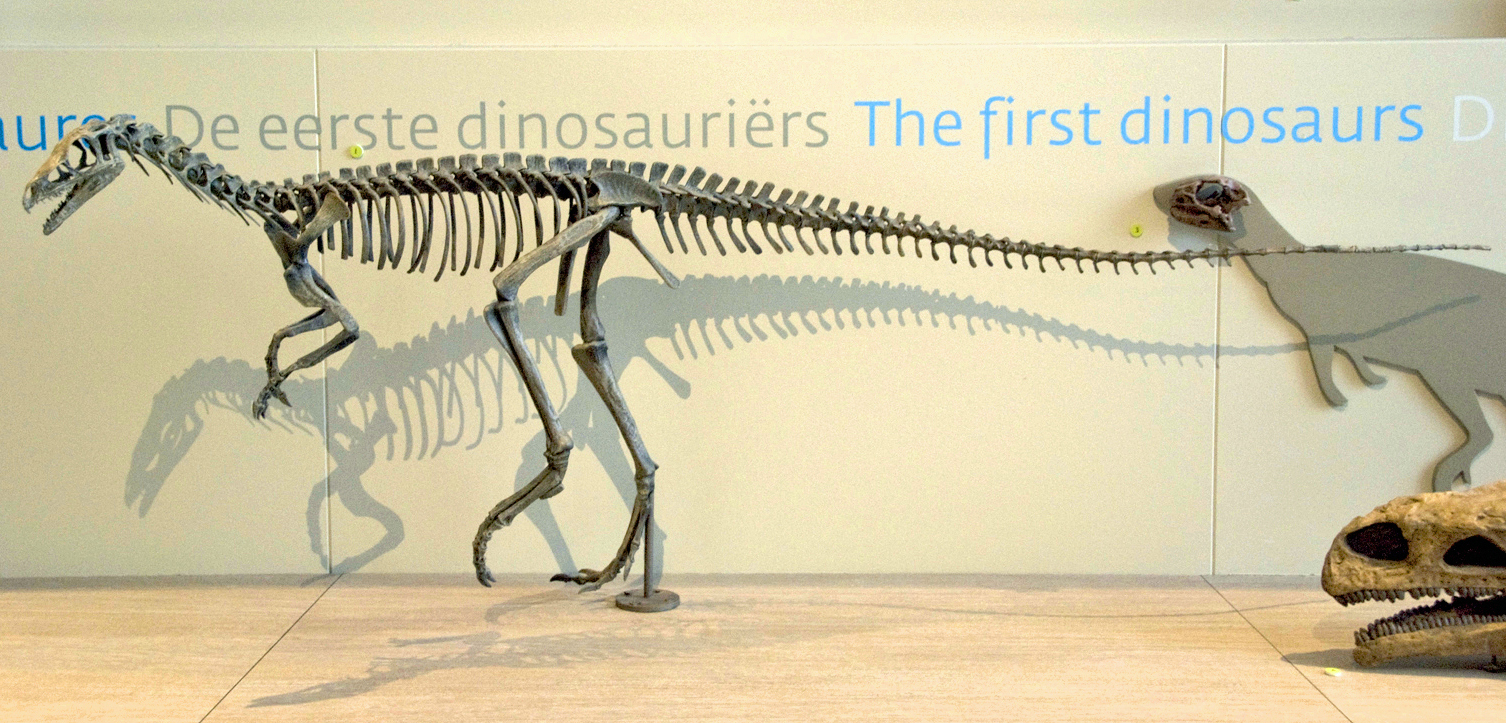 Replica Eoraptor at Brussels Science Institute